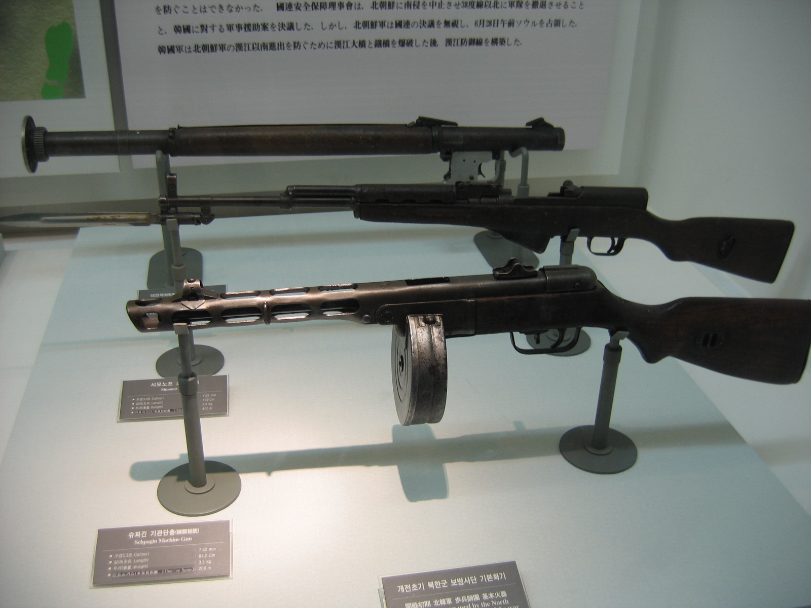 Basic Infantry arms for army of North Korea(1950, Korean War) which is displayed at Yongsan War Memorial in Seoul, Korea.